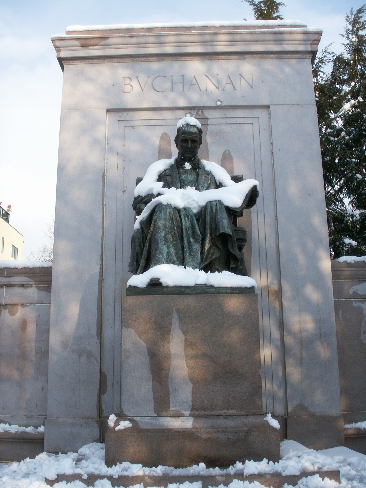 James Buchanan Memorial, (sculpture). Dates: Modeled 1923-1928. Cast by 1929. Dedicated June 6, 1930. Medium: Sculpture: bronze; Base: concrete and Milfor pink marble; Allegorical figures: granite. Dimensions: Sculpture: approx. H. 6 ft. 2 in. W. 6 ft. 7 in.; Base: approx. 70 in. W. 69 in. Portrait of James Buchanan seated in a chair dressed in a suit with a robe across his lap. He looks down at a paper which he holds in his proper left hand. Behind Buchanan is a rectangular white marble wall flanked by a curving stone bench with an allegorical figure at each end. Seated to the proper right is a bare-chested allegorical female representing Diplomacy. A bit of drapery is wrapped around her proper right arm and across her lap. Seated to the proper left is a bare-chested allegorical male representing Law. His legs are crossed and a bit a drapery covers his lap. In his proper left hand he holds a fasces, the Roman symbol of power.